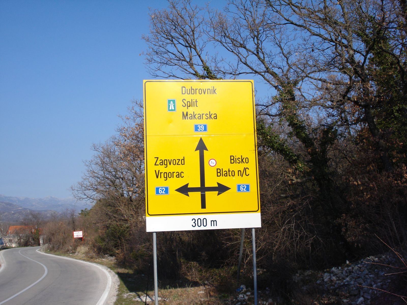 A road sign near Šestanovac, Croatia.